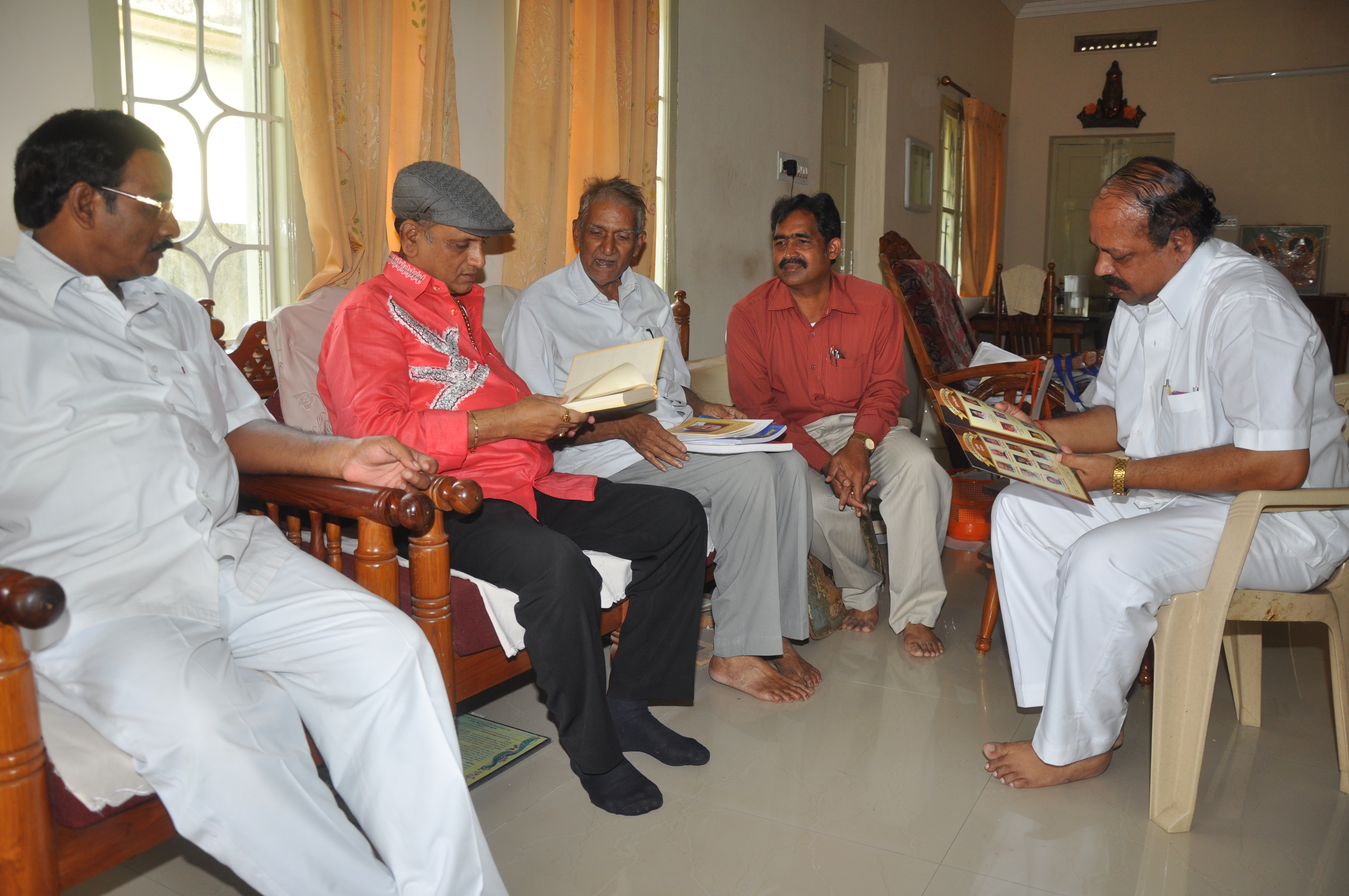 Dr Velaga with AVS